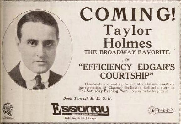 Ad for the American comedy film Efficiency Edgar's Courtship (1917) with Taylor Holmes, on page 5 of the August 18, 1917 Exhibitors Herald.